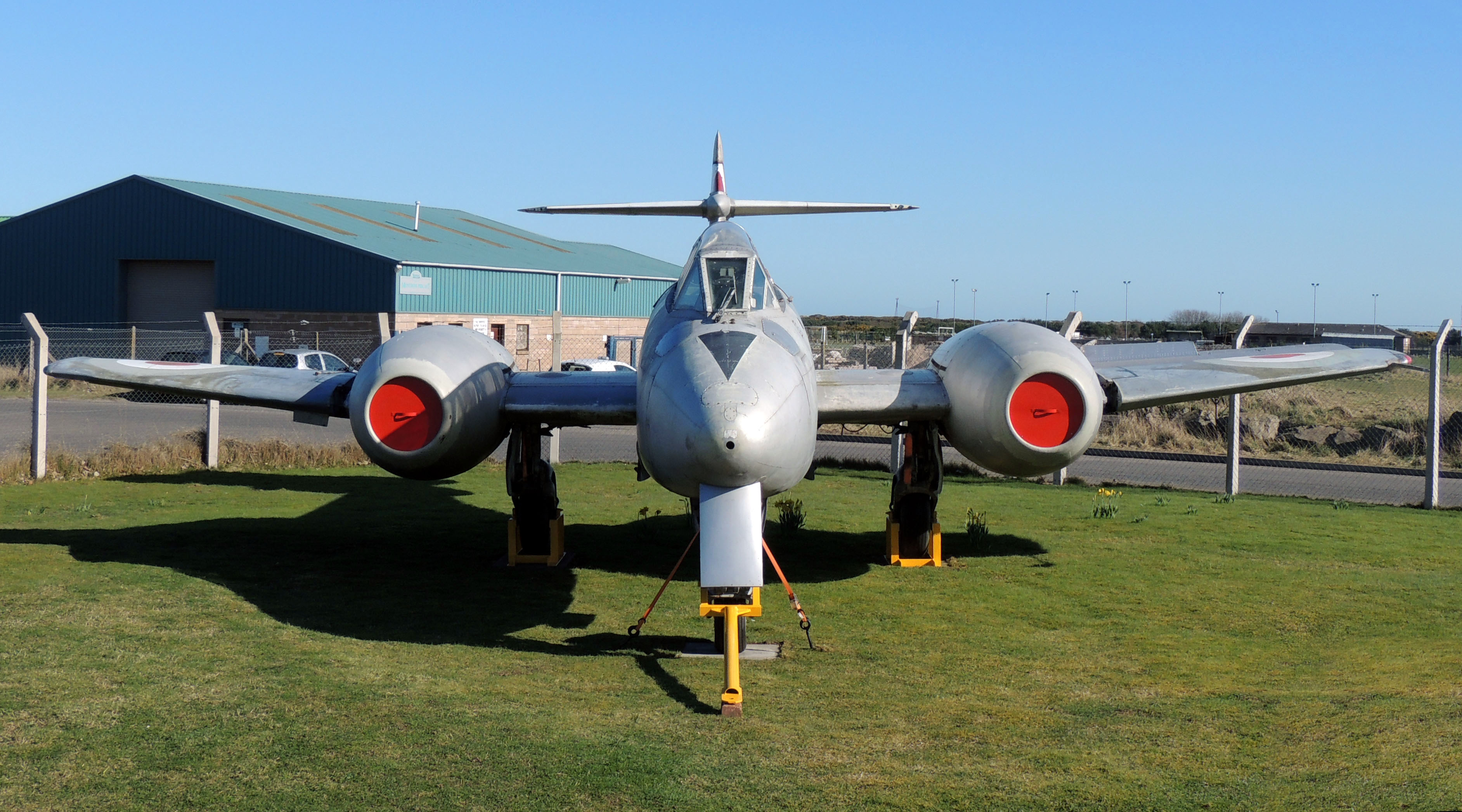 Gloster Meteor T.7 WF825. A two seat trainer delivered to 603 (City of Edinburgh) Squadron in 1951. It remained in service with the RAF until 1968. Now on display at Montrose Air Station Heritage Centre, Angus, Scotland.